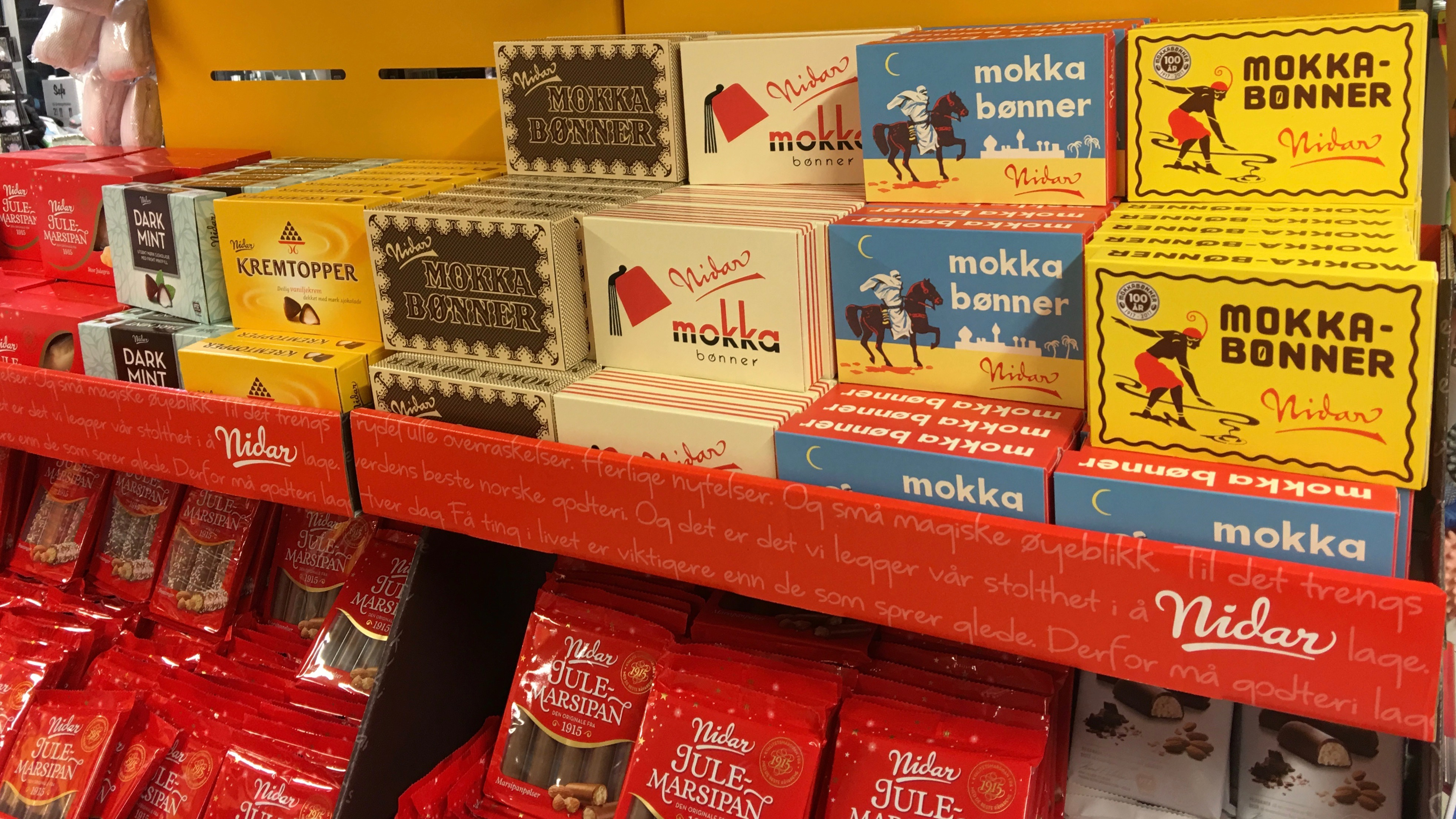 Chocolate products from Nidar (Mokkabønner, kremtopper, julemarsipan m.m.) in Extra (Coop supermarket), Sem, Norway. November 2017.